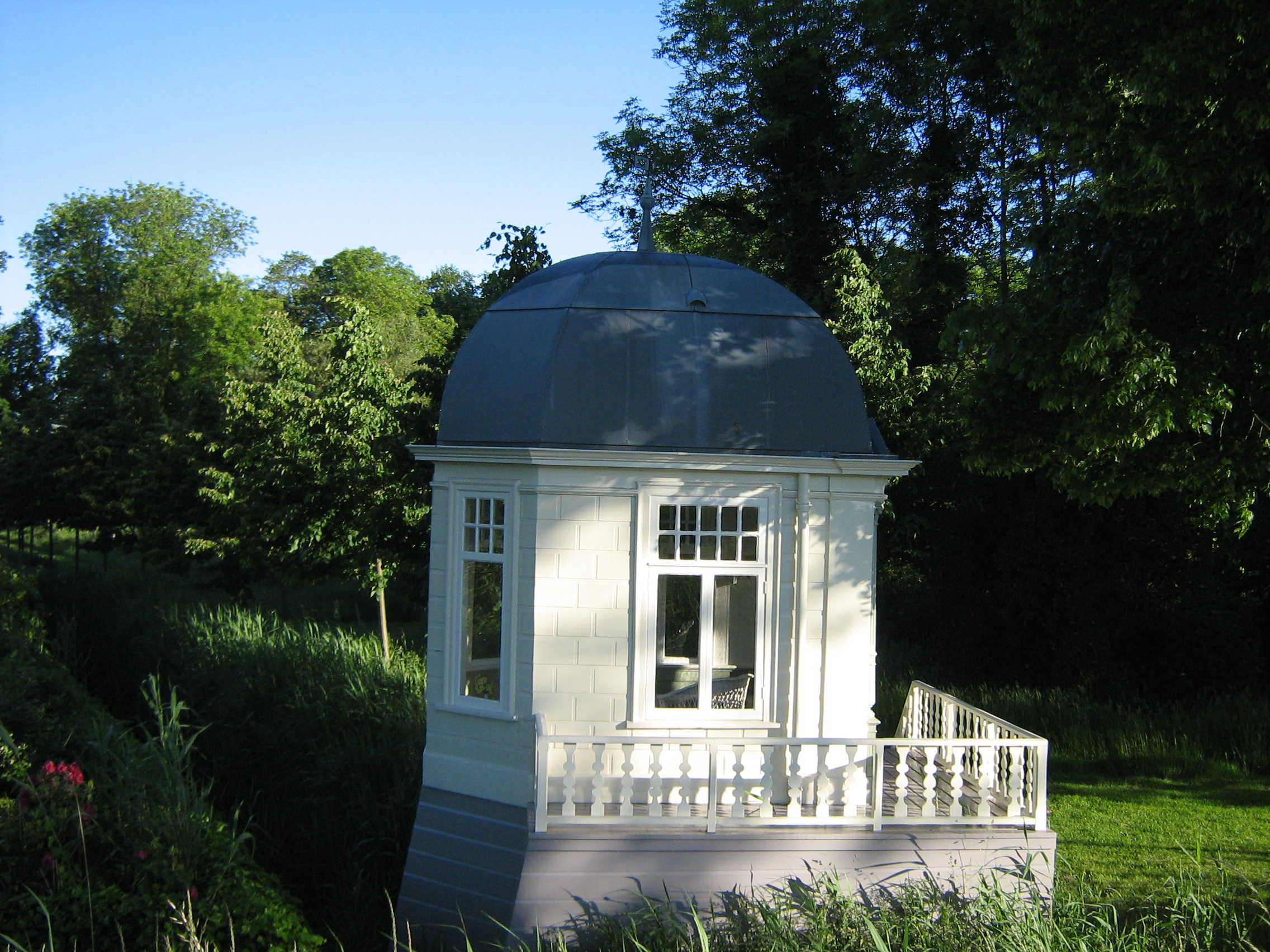 Tea pavilion on the grounds of the Wester-Amstel mansion (55 Amsteldijk-Noord, Amstelveen, the Netherlands). The pavilion is a national monument registered as object 414348. (The main house is registered separately.) Photograph made on the morning of June 4 2010 by the uploader, who has donated it to the public domain.